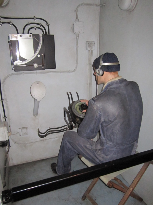 Reconstruction of the ASDIC hut on a British destroyer at the start of WWII. Merseyside Maritime Museum, Liverpool, England.